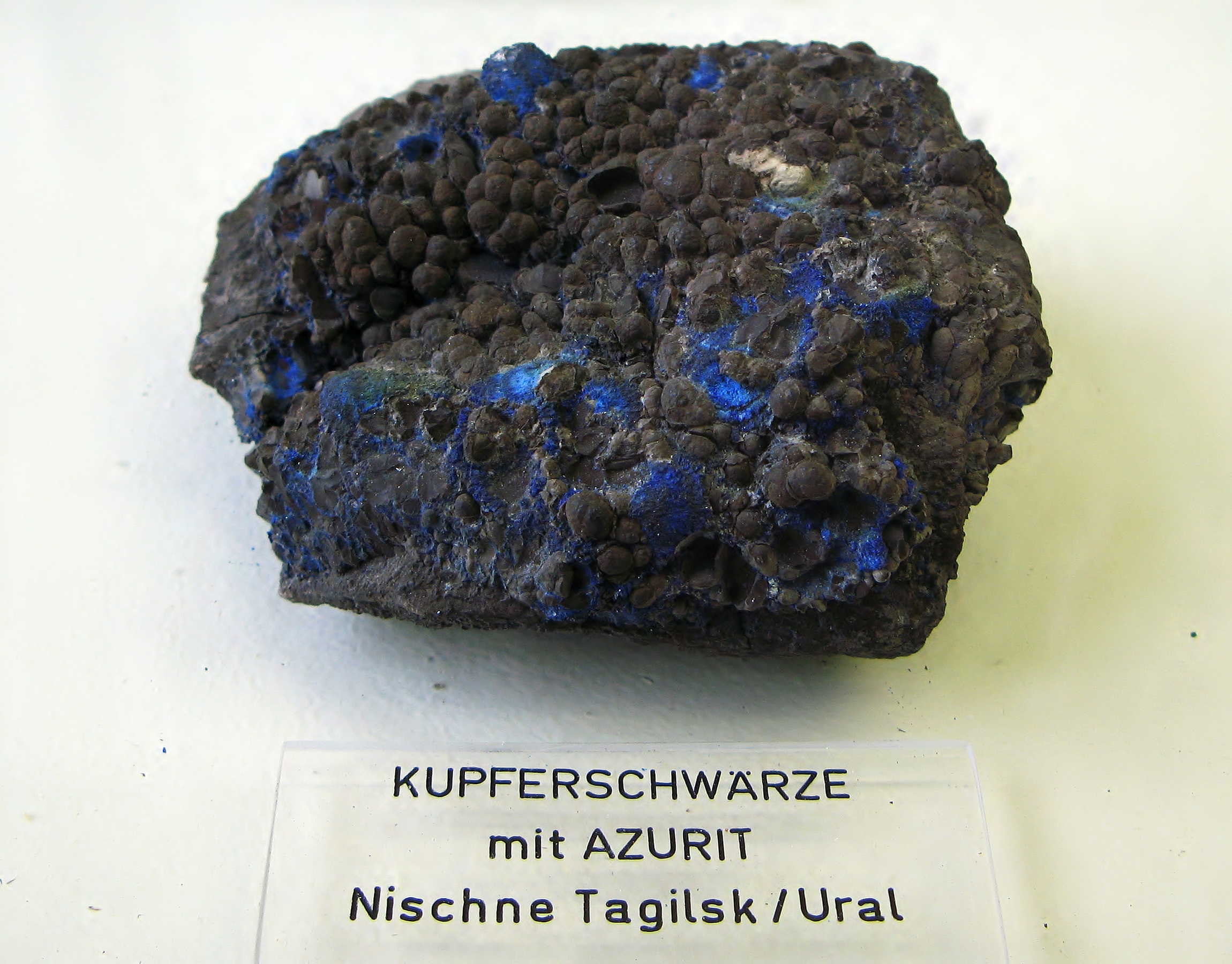 Tenorite with Azurite - Locality: Nischne Tagilsk, Ural, Russia - Exposed in the Mineralogical Museum, Bonn, Germany